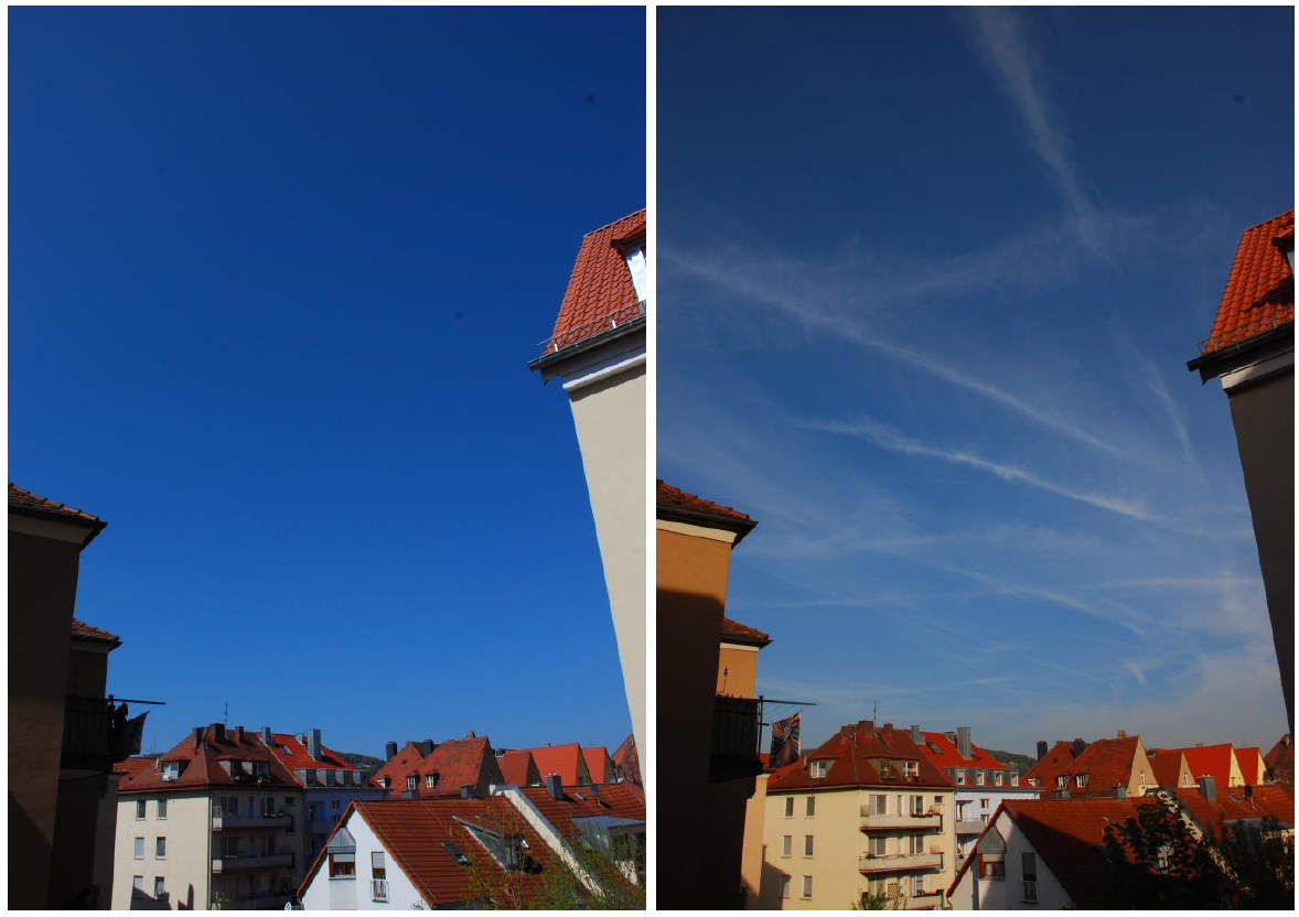 The image on the left shows the sky above Würzburg, Germany without contrails after the grounding of air traffic in 2010 and the image on the right shows the sky with regular air traffic on a day when conditions were right for contrails to form.